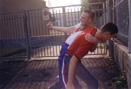 a typical scene of Street Fight